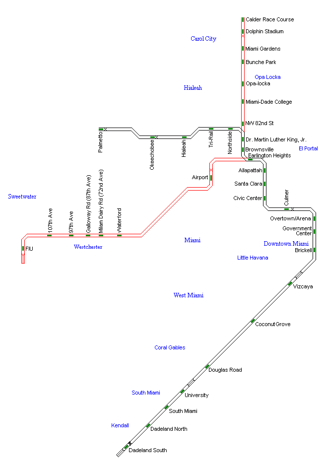 Map of the Orange Line (MDT) extensions to the Metrorail (Miami-Dade County) system proposed in the aughts. By 2015, only an extension to the airport was built. Note: This is a variation which includes an alignment for the western extension to pass through the airport, which it currently does. Initially the east-west corridor was supposed to terminate at an unused platform at Government Center (MDT station).